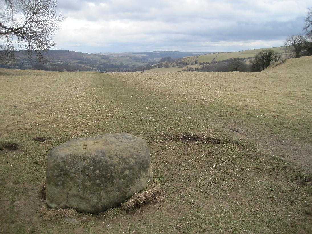 The Boundary Stone, Eyam, Derbyshire, with holes believed to be where coins were place for trade during the quarantine of the Bubonic Plague outbreak of 1665-6.